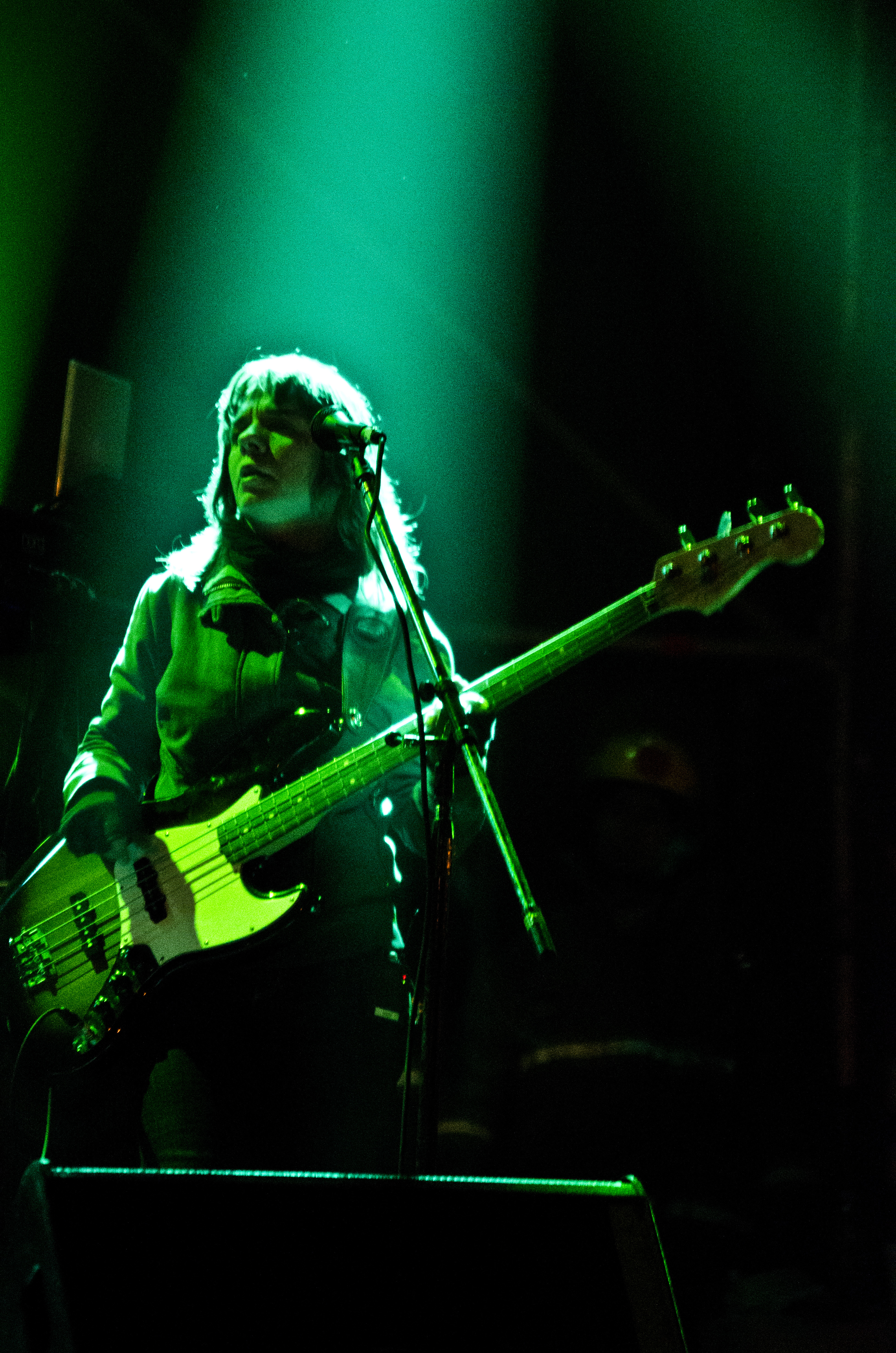 Bariloche, 9 de agosto de 2014 - Como parte de los festejos programados para la 44.ª Fiesta Nacional de la Nieve, que se llevara adelante en el Centro Cívico y en escenarios del centro de San Carlos de Bariloche, el Ministerio de Cultura de la Nación ofrece una variada oferta artística como Las Pelotas, Nada Más y Nada Menos, y Alai. La programación musical de la 44.ª Fiesta Nacional de la Nieve cuenta con el apoyo de la Secretaría de Políticas Socioculturales del Ministerio de Cultura de la Nación, y del Plan Nacional Igualdad Cultural, impulsado por los Ministerios de Planificación Federal, Inversión Pública y Servicios, y Cultura de NaciónFotos: Mauro Rico: Ministerio de Cultura de la Nación